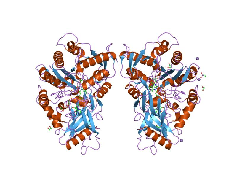 Cartoon representation of the molecular structure of protein registered with 1i19 code.